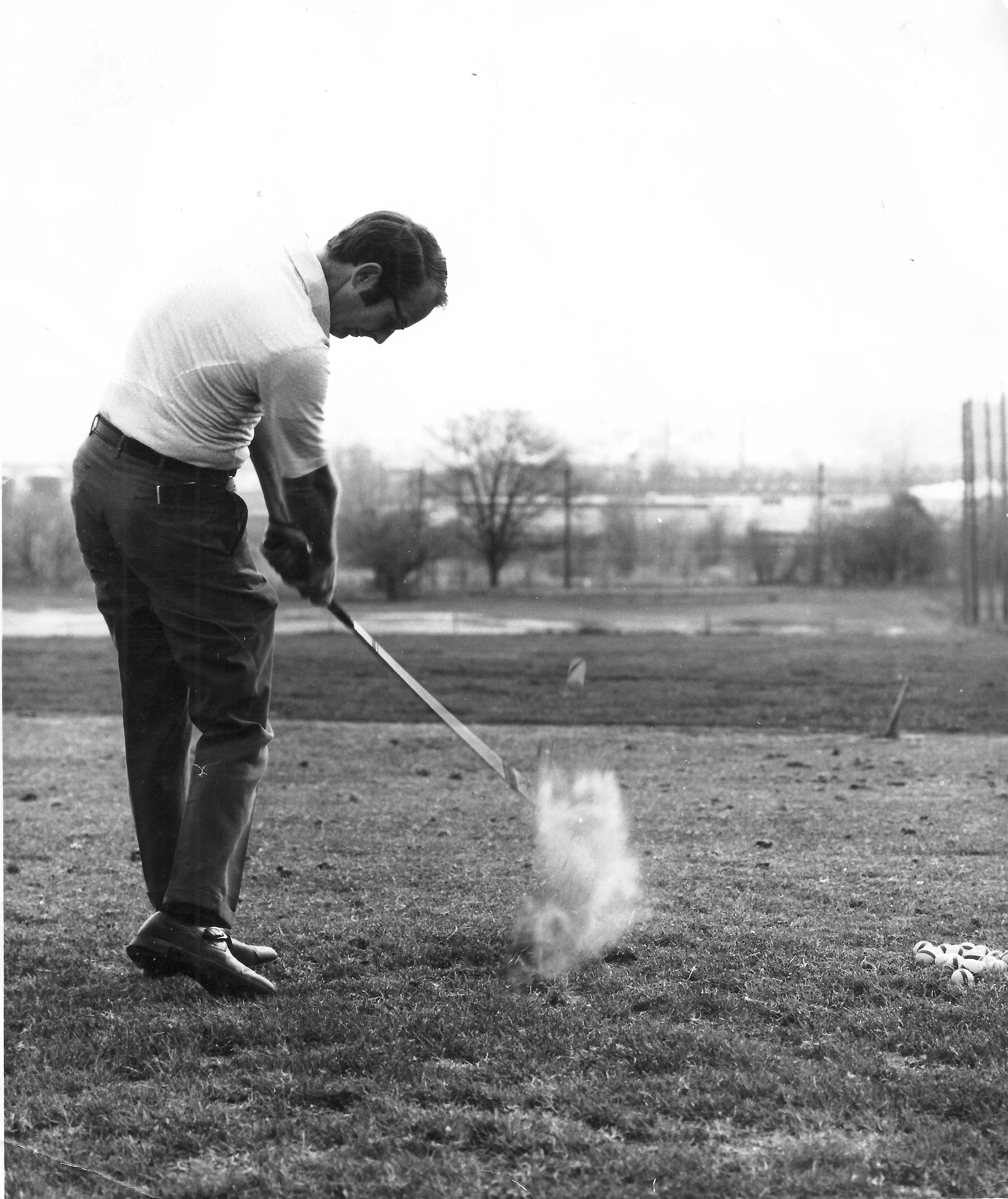 Terry McCabe hitting golf balls in 1975 in Cincinnati, OH